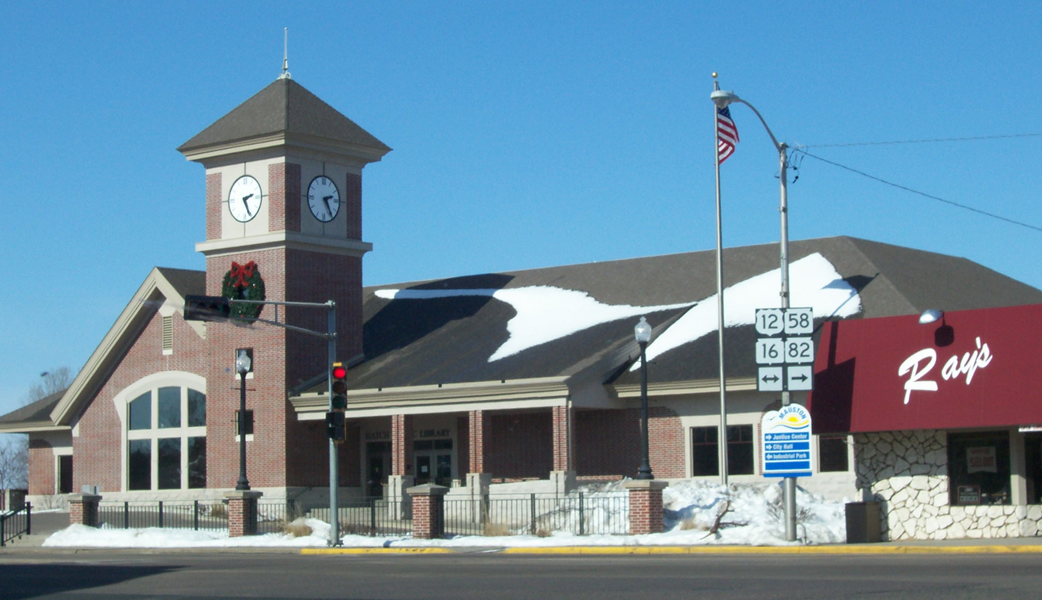 The city library for Mauston, Wisconsin, USA. On U.S. Route 12, Wisconsin Highways 16, 58, 82.